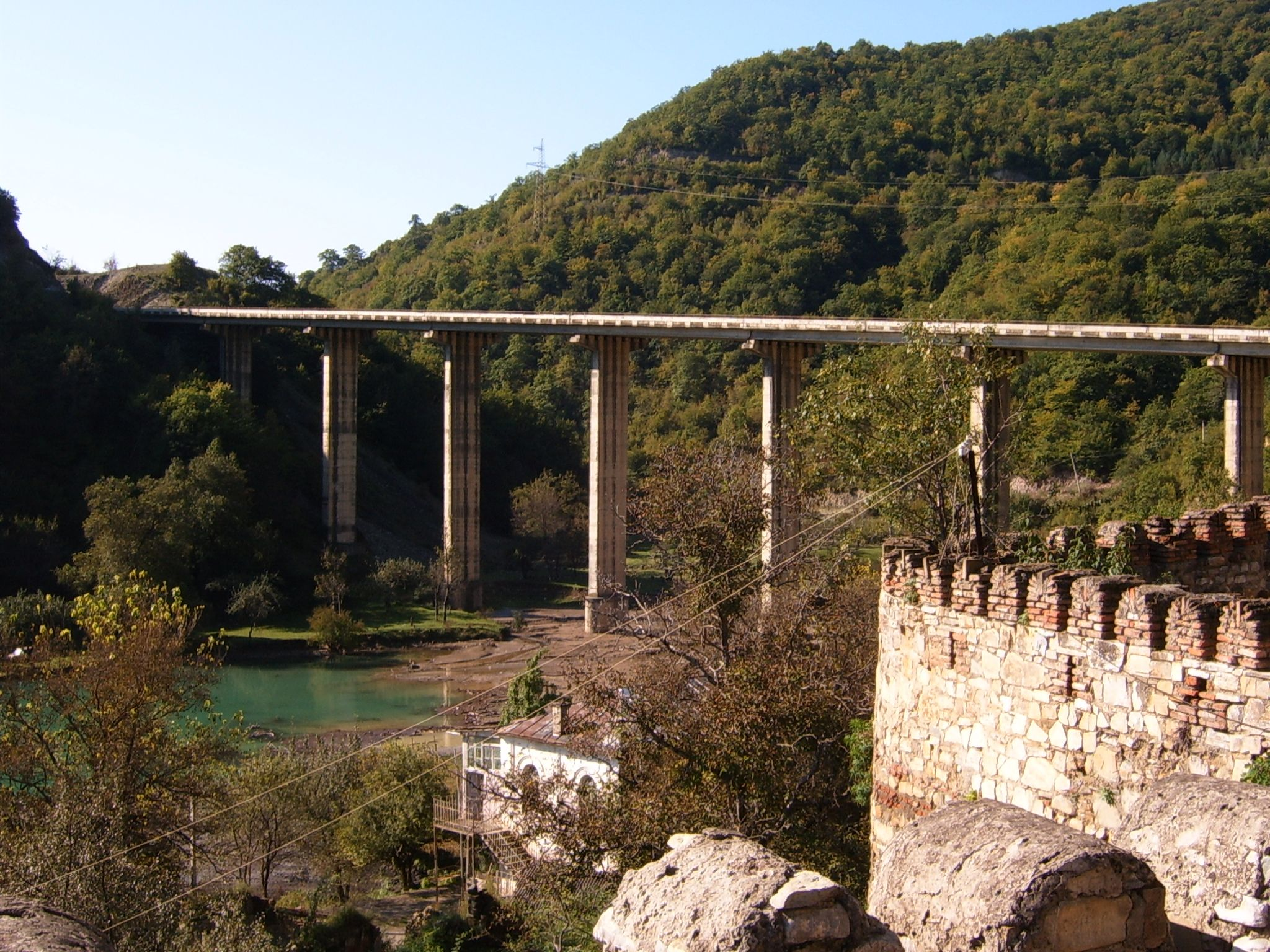 Bridge near Ananuri village, Georgia, on the Georgian Military Road